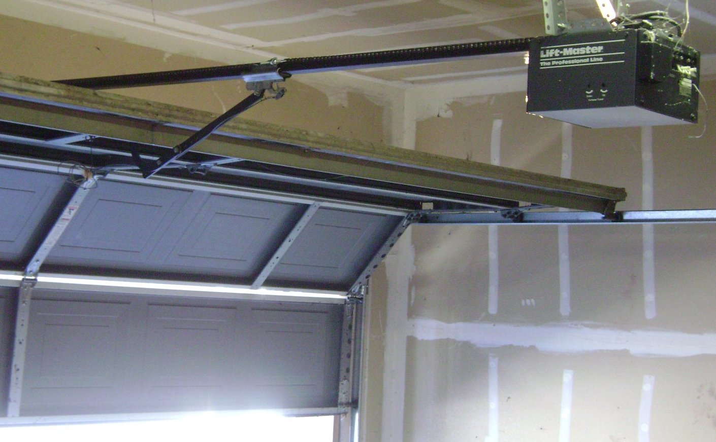 Photograph of a chain-drive garage door opener. This residential unit is manufactured by The Chamberlain Group, Inc. under the LiftMaster brand name.